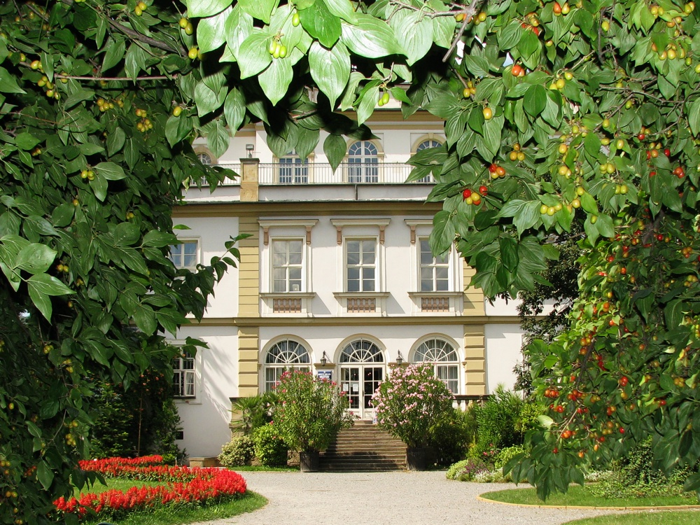 Collegium Śniadeckiego, Botanical Garden, Kraków